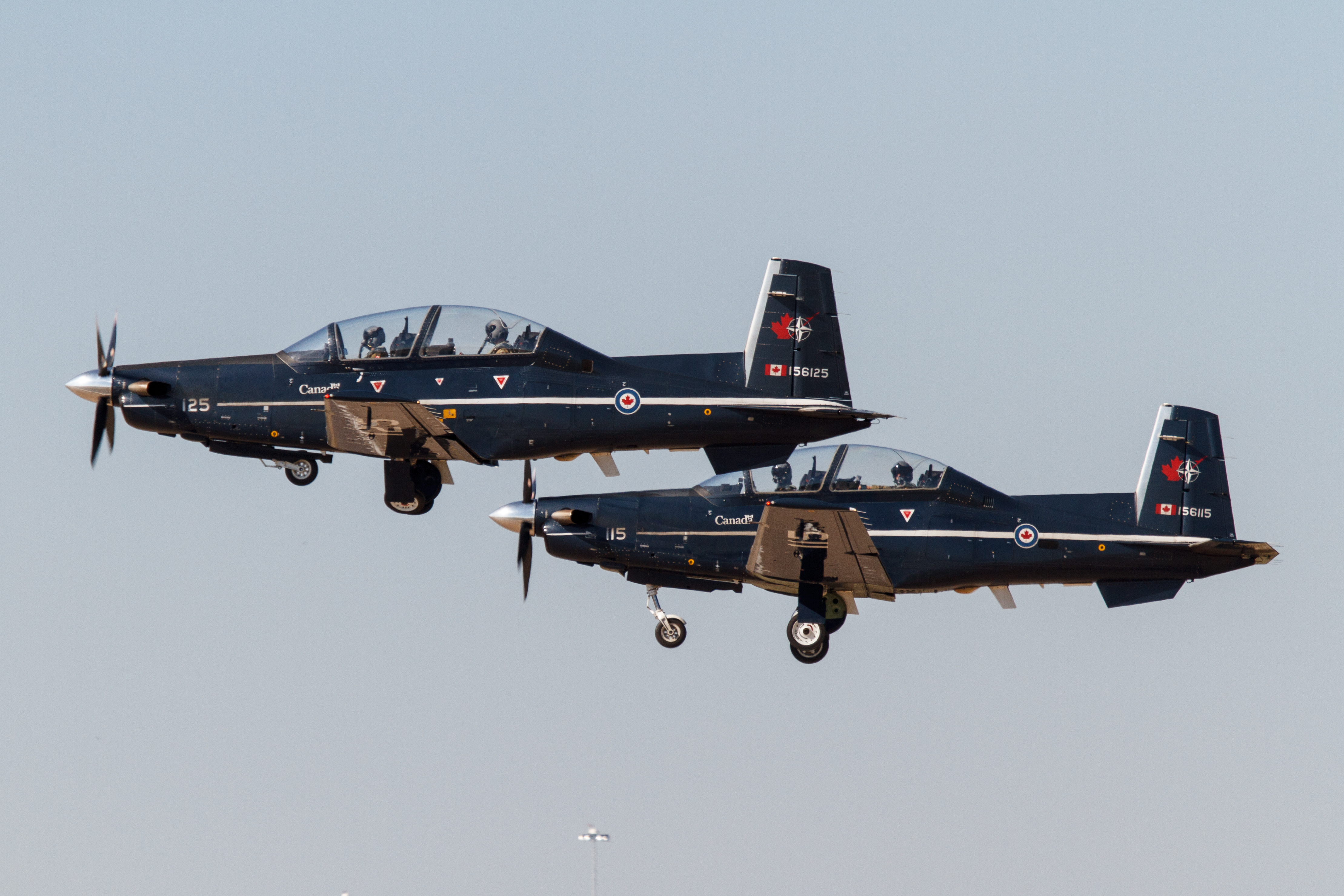 A Royal Canadian Air Force CT-156 Harvard II at the Alliance Air Show in 2014.